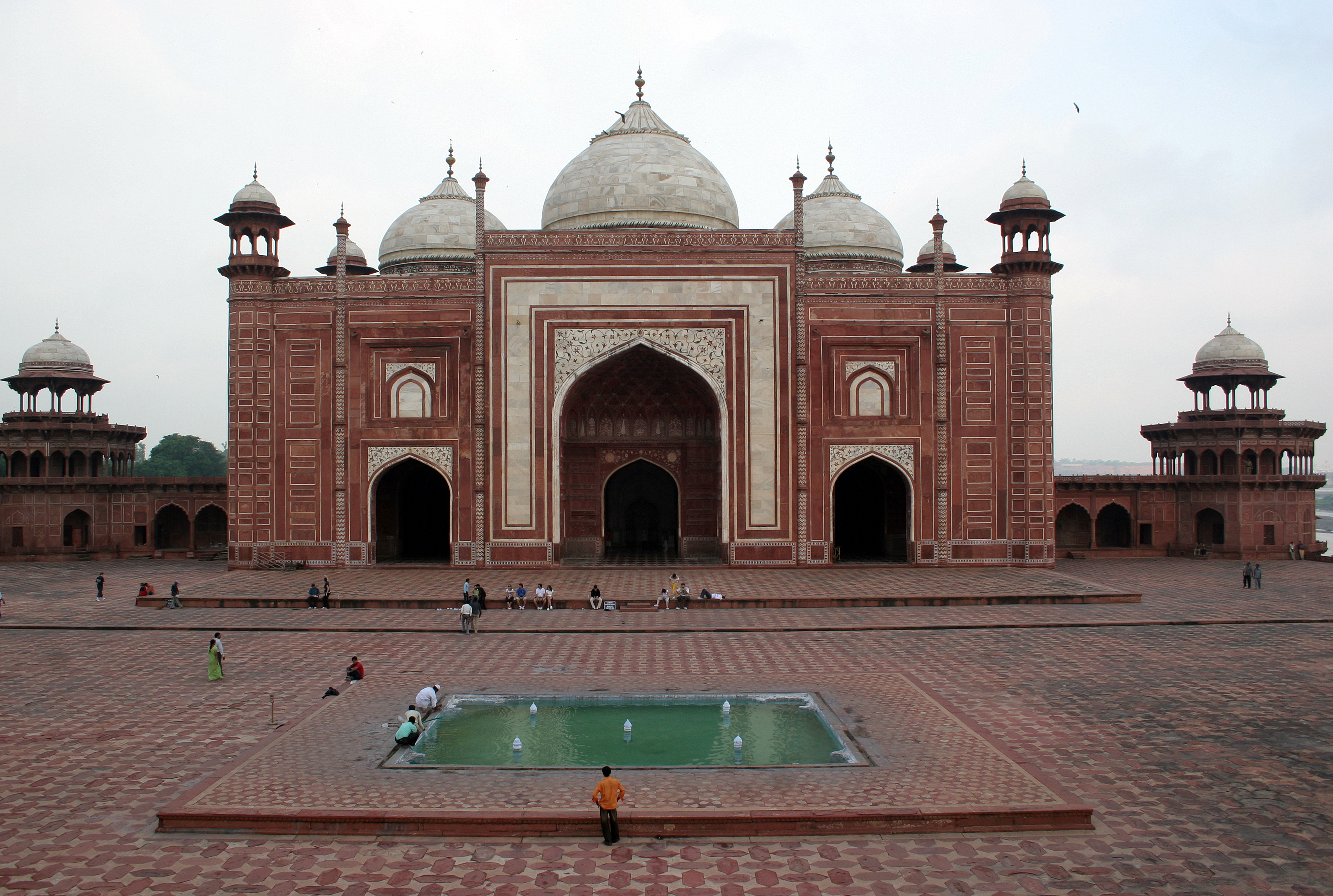 The Taj Mahal mosque in Agra, India.